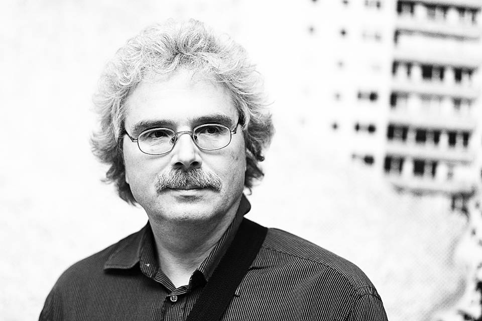 Christiaan Tonnis - Photography: Peter Braunholz